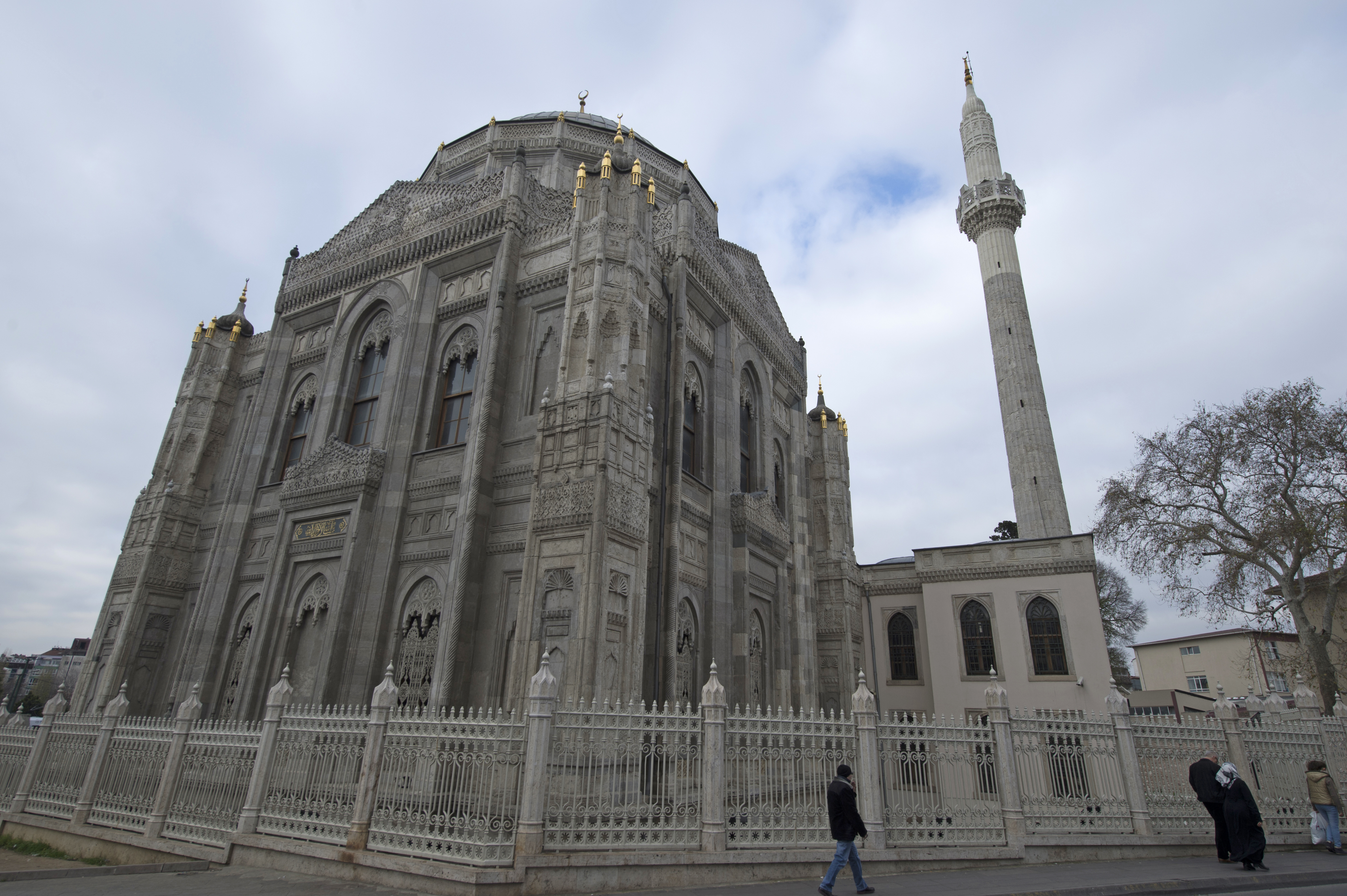 Strolling through Istanbul, is harsh on this mosque: "It combines elements from Moorish and Turkish, Gothic, Renaissance and Empire styles in a garish rococo hodgepodge". The mosque was built in 1871 for the mother of Sultan Abdül Aziz. It seems to be by the Armenian architects Hagop and Sarkis Balyan, who built some of the late Ottoman palaces along the Bosporus. The complex is an oasis of quiet near Aksaray, one of the busiest points in town. This is a view from Atatürk Bulvari.